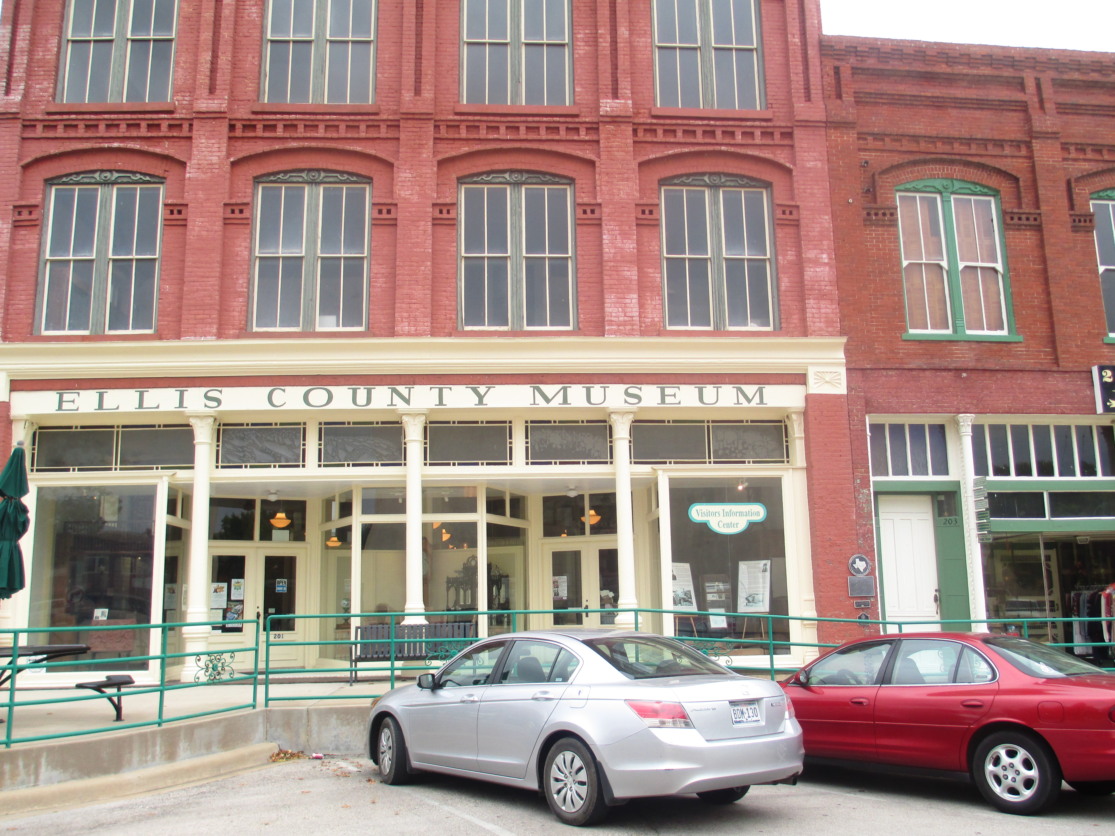 Ellis County, TX, Museum in Waxahachie